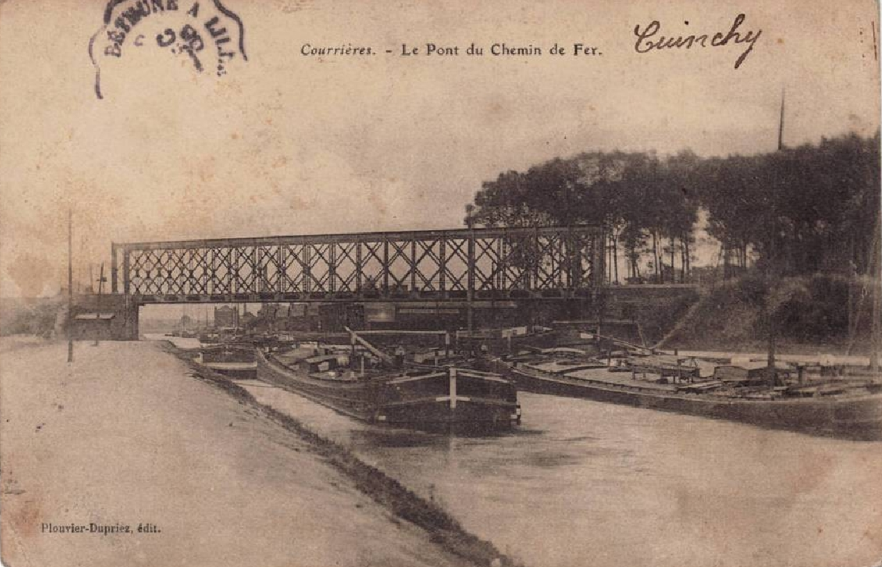 Courrières, France.